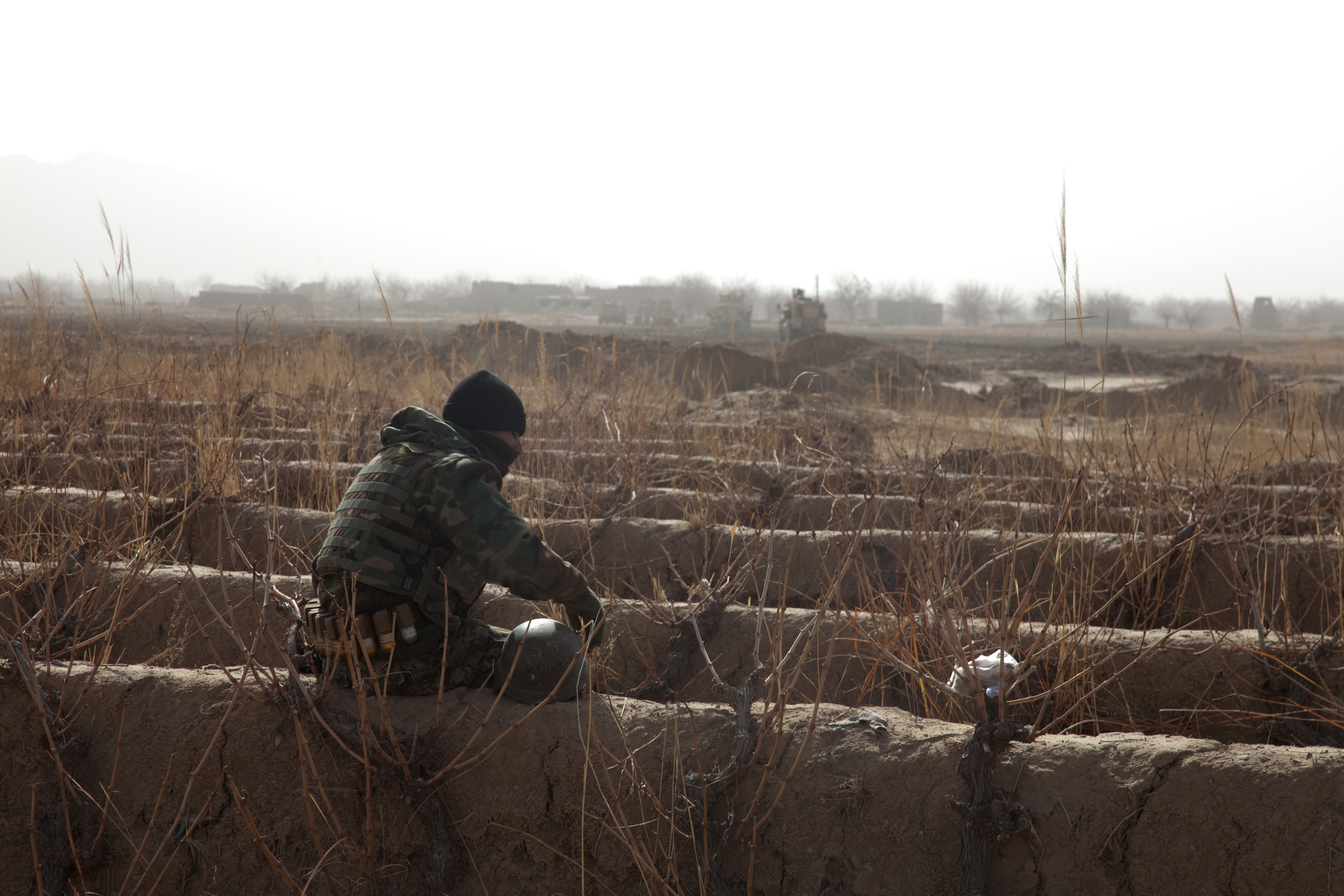 A soldier of 3rd Brigade, 205th Corps, Afghanistan National Army, rests on a grape row, Zharay district, Kandahar province, Afghanistan, Feb. 5, 2012. Soldiers of 3rd Brigade are providing security for a road clearing and strongpoint construction mission.